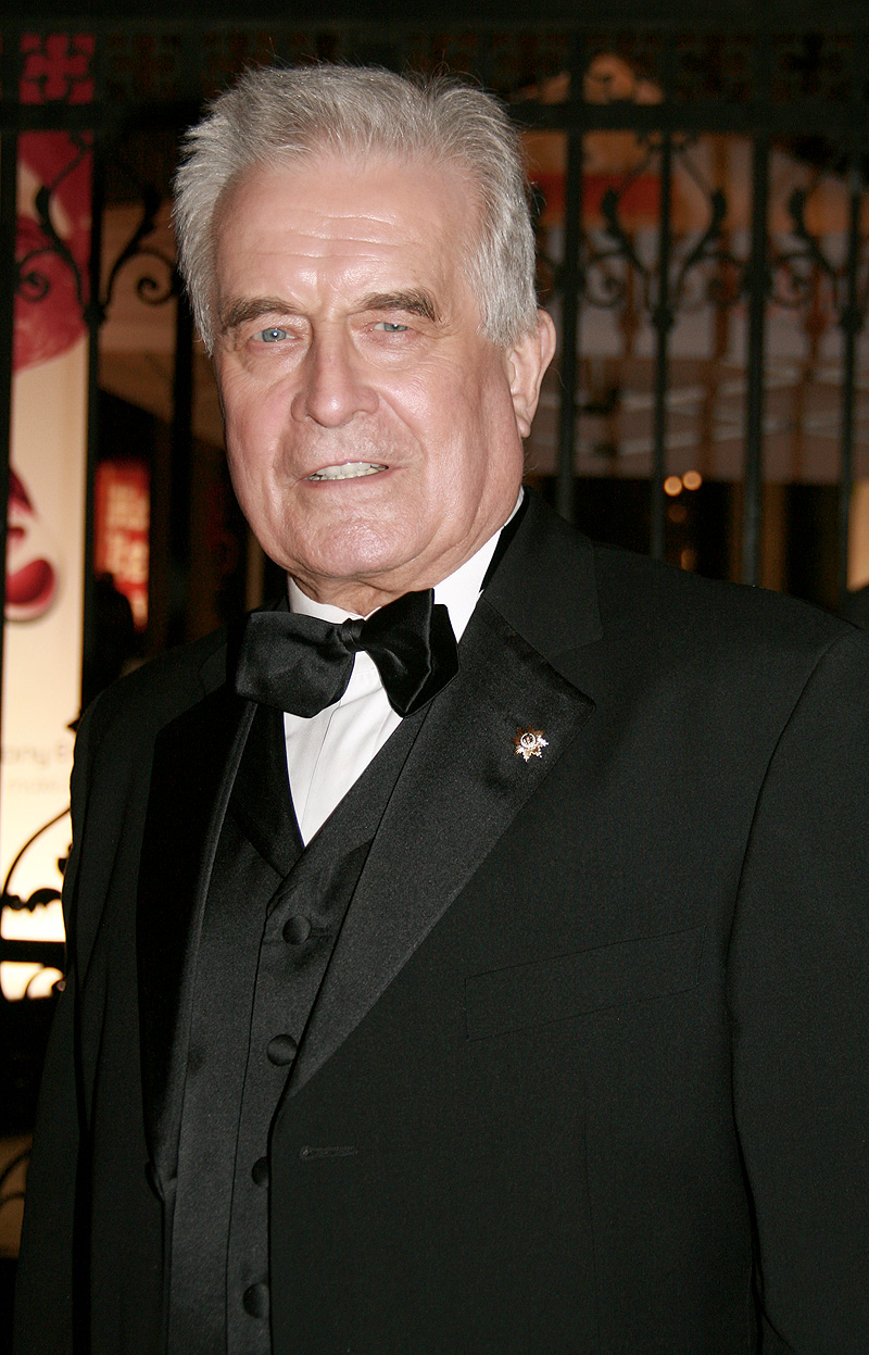 Frank Hoffmann at the Vienna Film Ball 2010 (Vienna city hall).